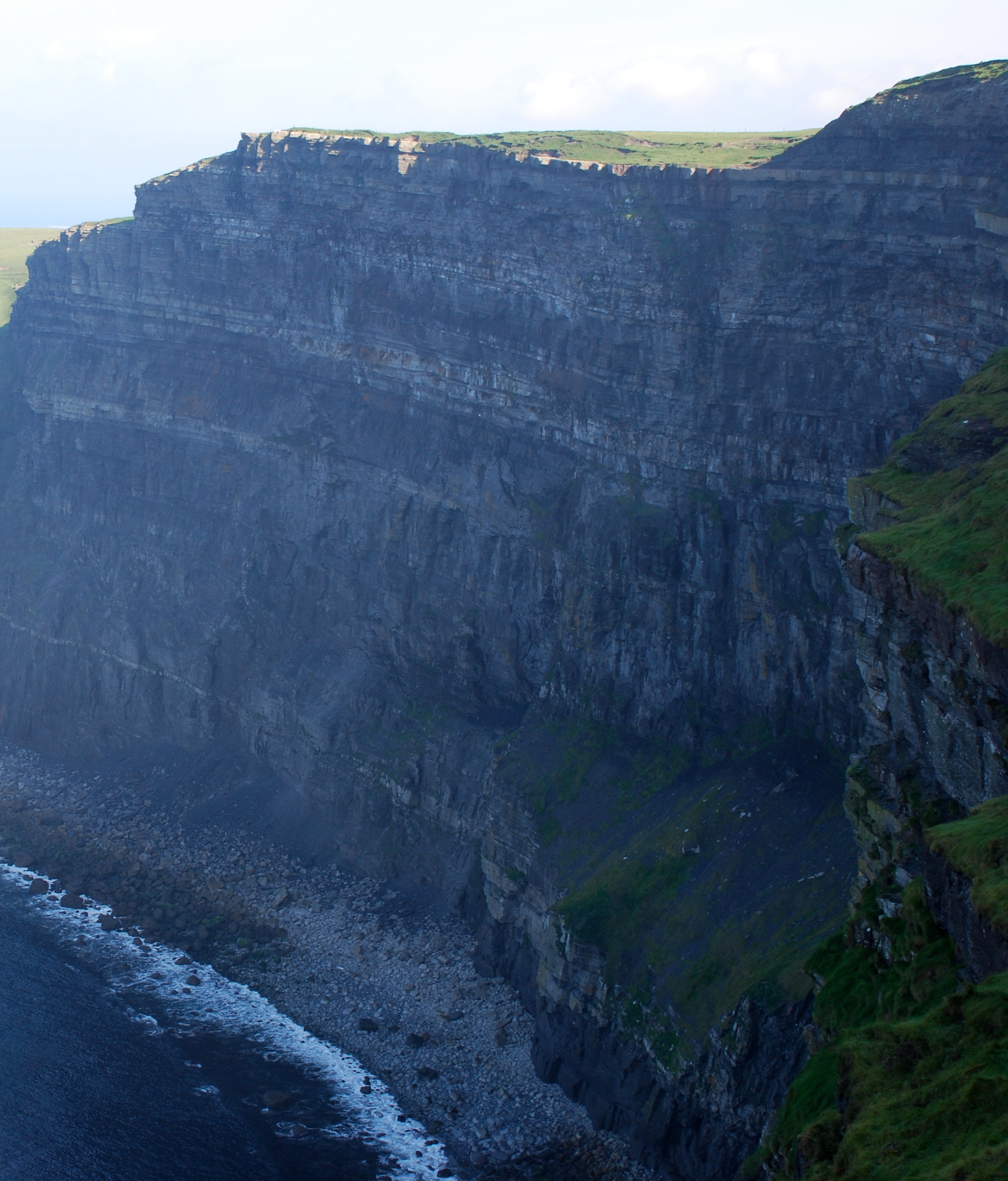 Cliffs of Moher Gesteinsschichten